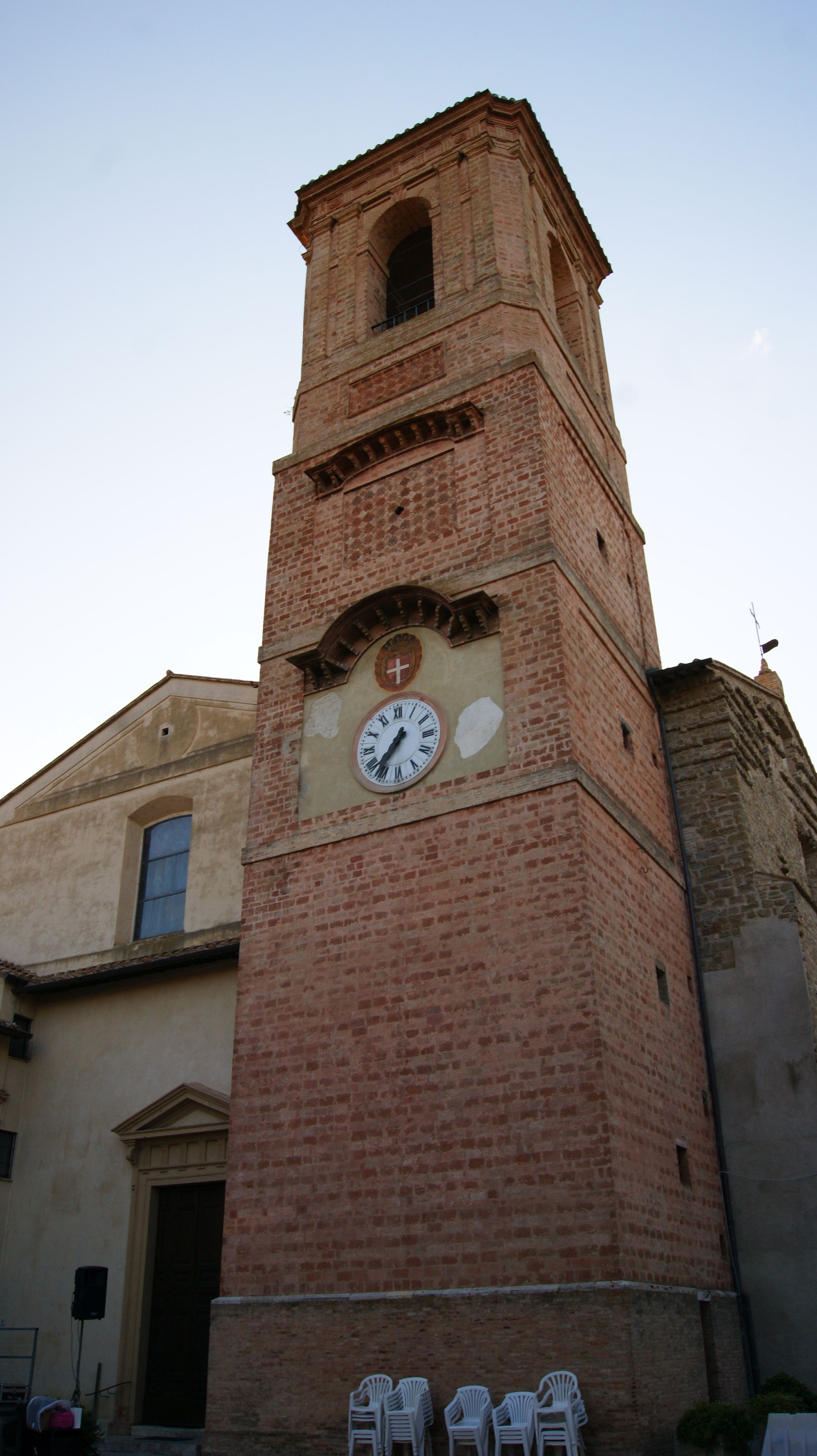 Bettona, Italy. Tower Santa Maria Maggiore.